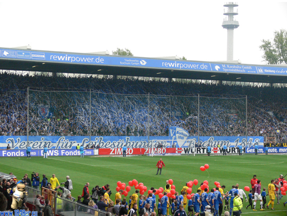 Rewirpower Stadium at the begining of a soccer match